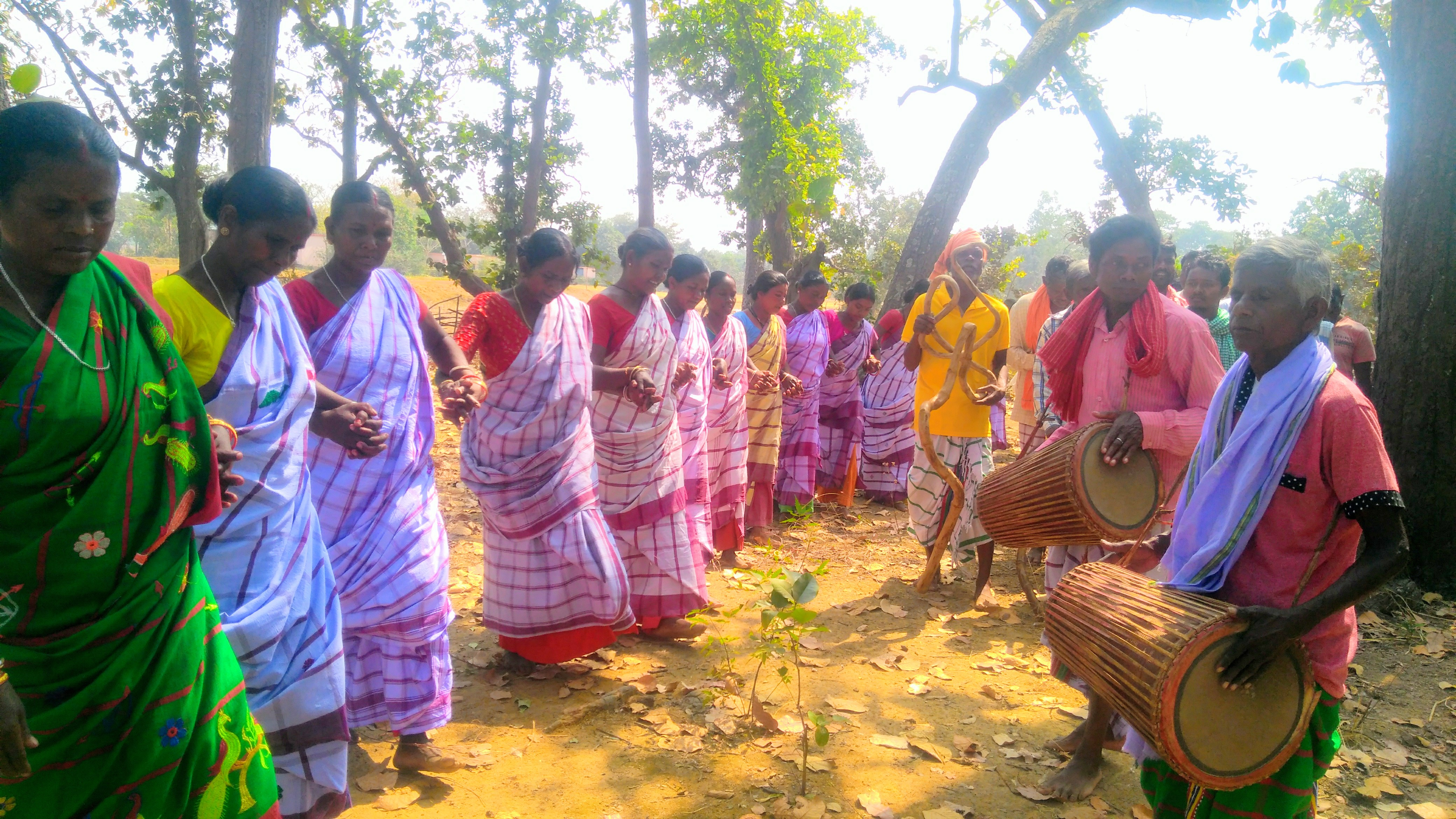 Baha parab is festival of santhal people. This photo has been taken in the country: India